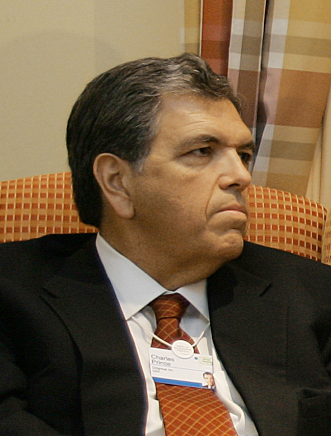 Davos (Switzerland) - Citigroup's CEO, Chuck Prince, during the World Economic Forum